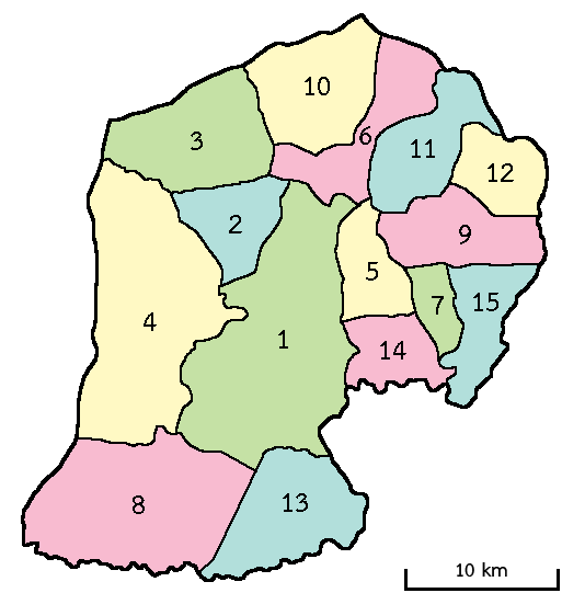 Subdistricts of Suwannaphum